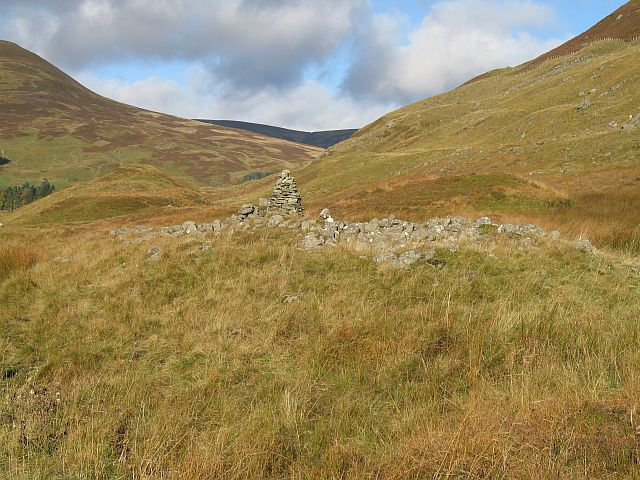 Clach na Tiompan A long chambered cairn near Auchnafree. The pass through Glen Lochan can be seen in the background.